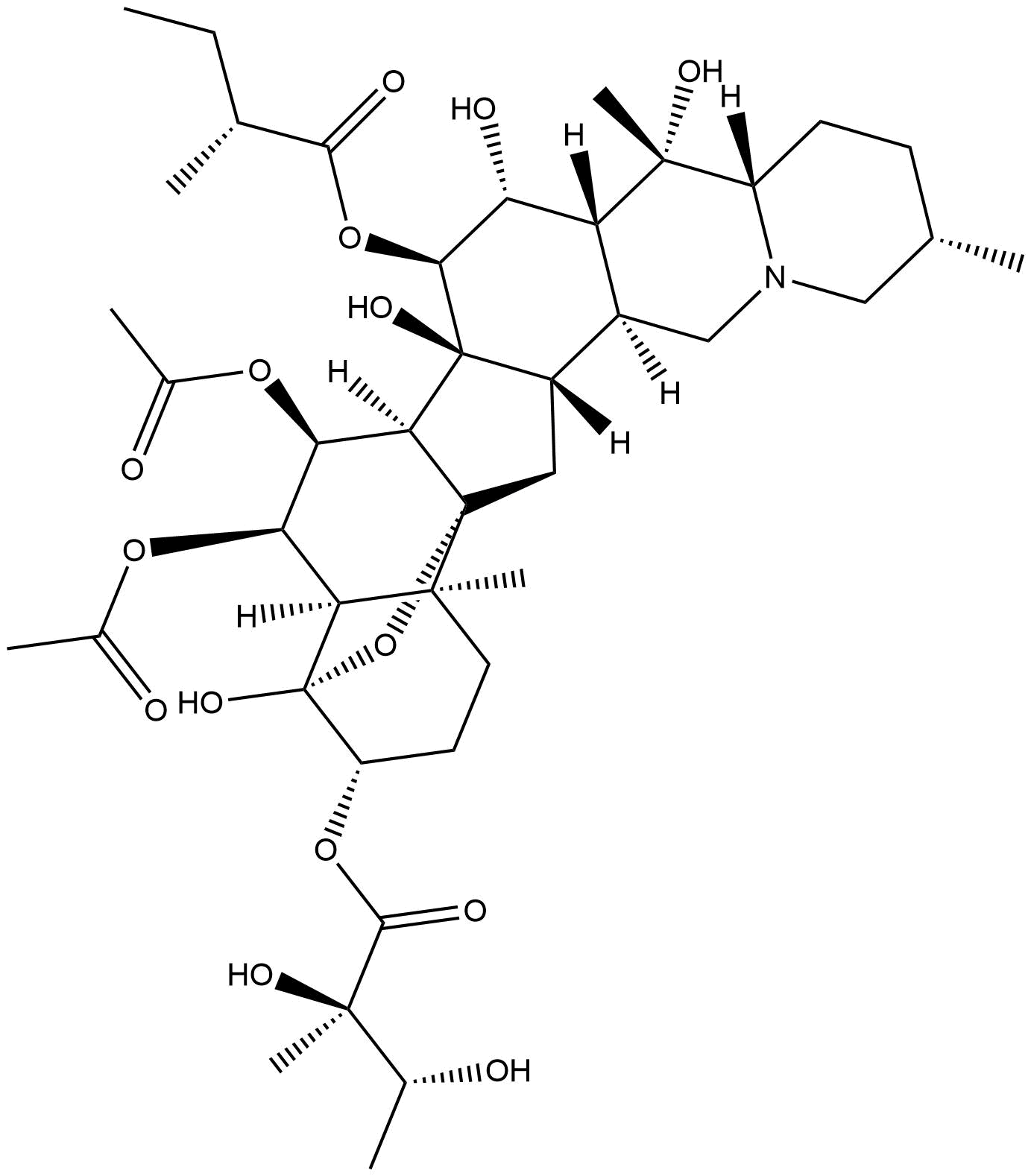 Structure of the alkaloid protoveratrine B.